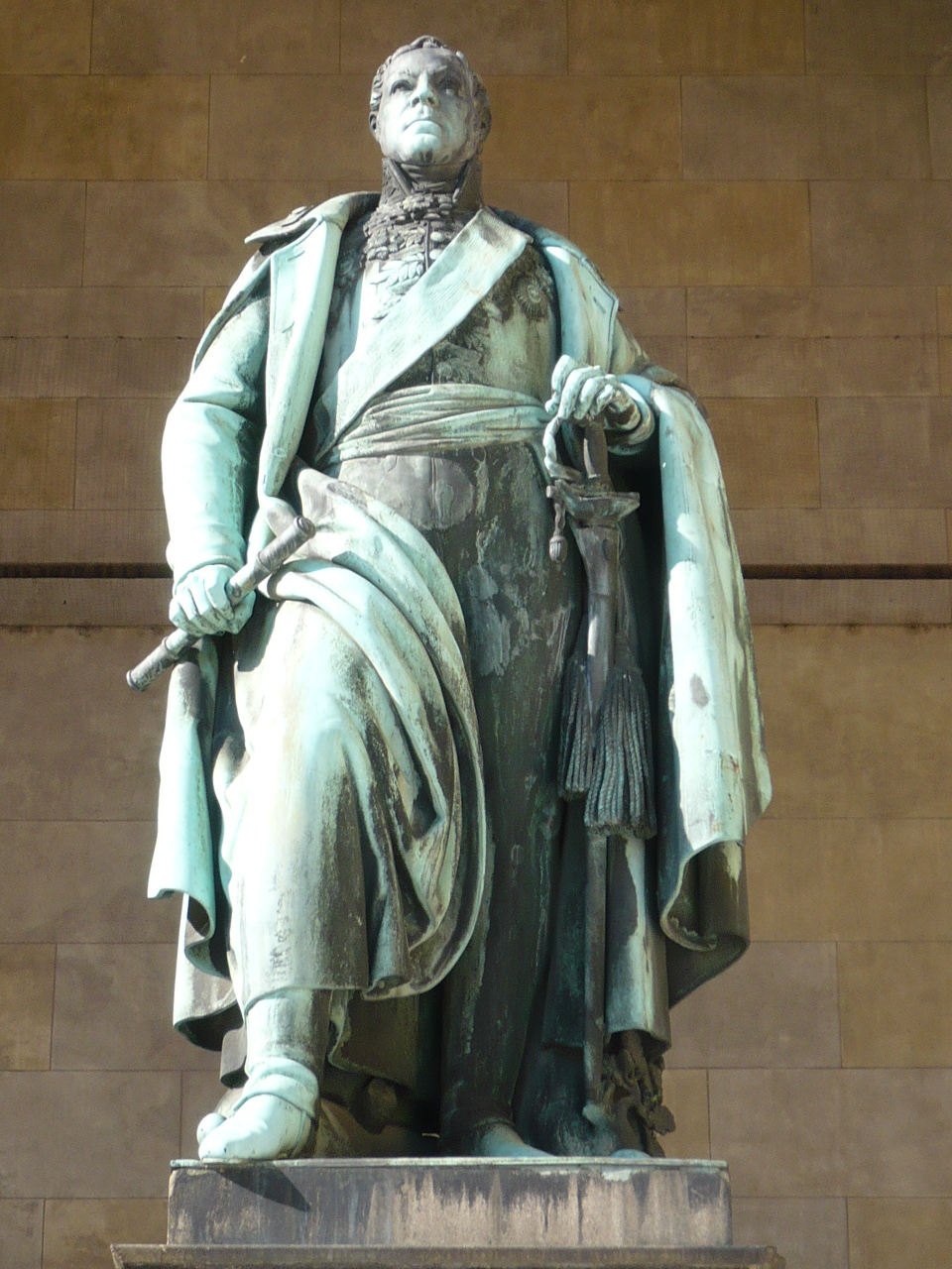 Statue to Karl Wrede, Feldherrnhalle, Munich, Bavaria, Germany.